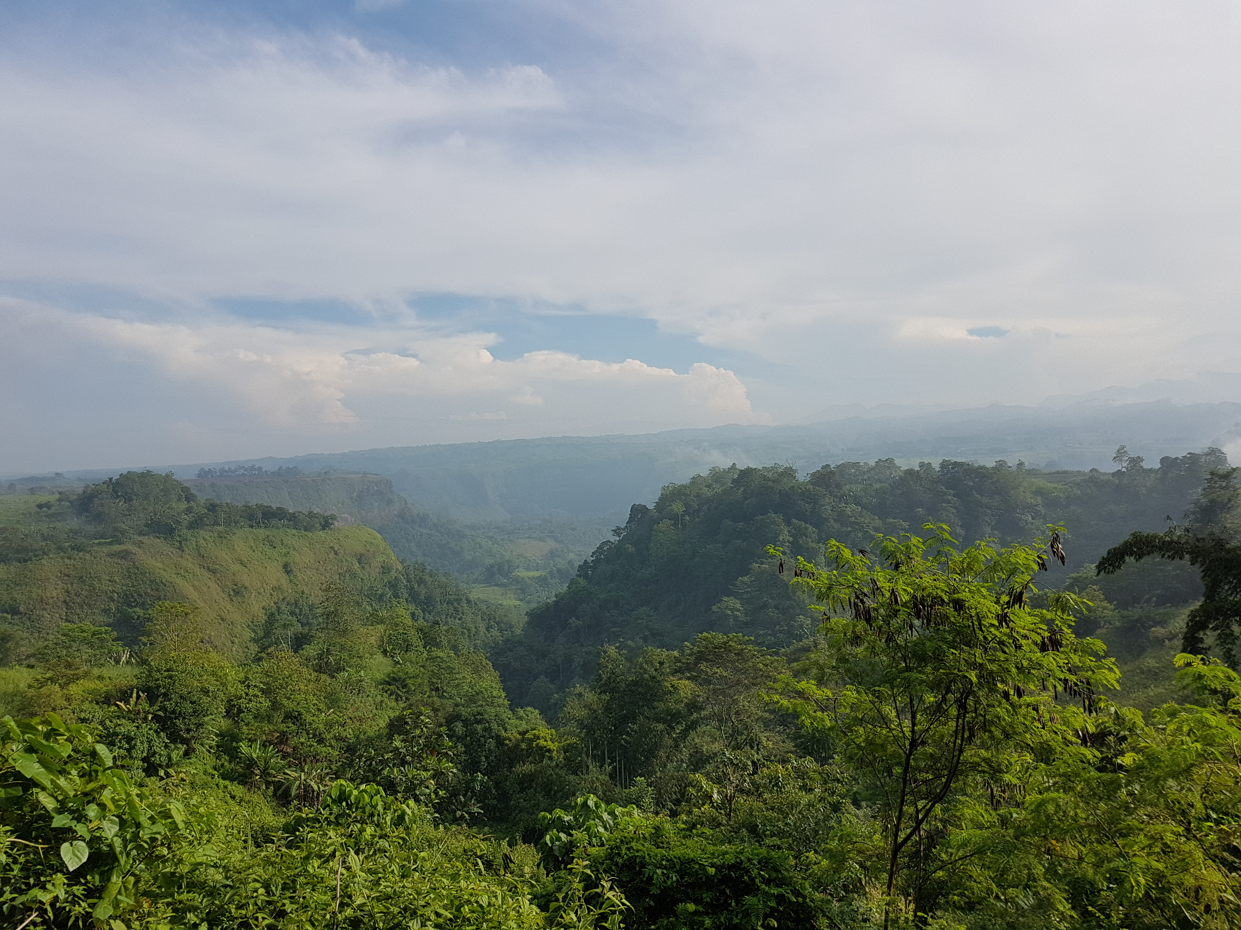 Mangima Canyon at the Sitio Angeles View Deck in Maluko, Manolo Fortich, Bukidnon